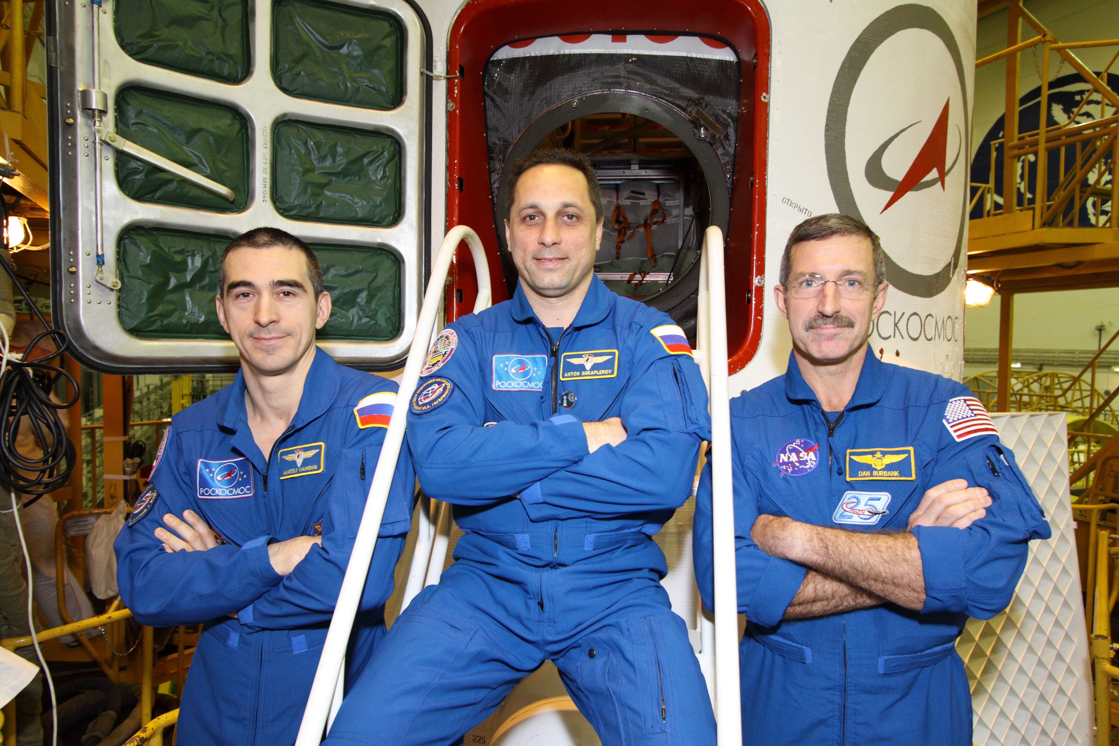 At the Baikonur Cosmodrome in Kazakhstan, Expedition 30 Flight Engineer Anatoly Ivanishin (left), Soyuz Commander Anton Shkaplerov (center) and Expedition 30 Commander Dan Burbank of NASA (right) pose for pictures in front of their Soyuz TMA-22 spacecraft Nov. 9, 2011 as they completed a final inspection of the vehicle in its Integration Facility. The three are preparing for their scheduled launch Nov. 14 from Baikonur to the International Space Station.